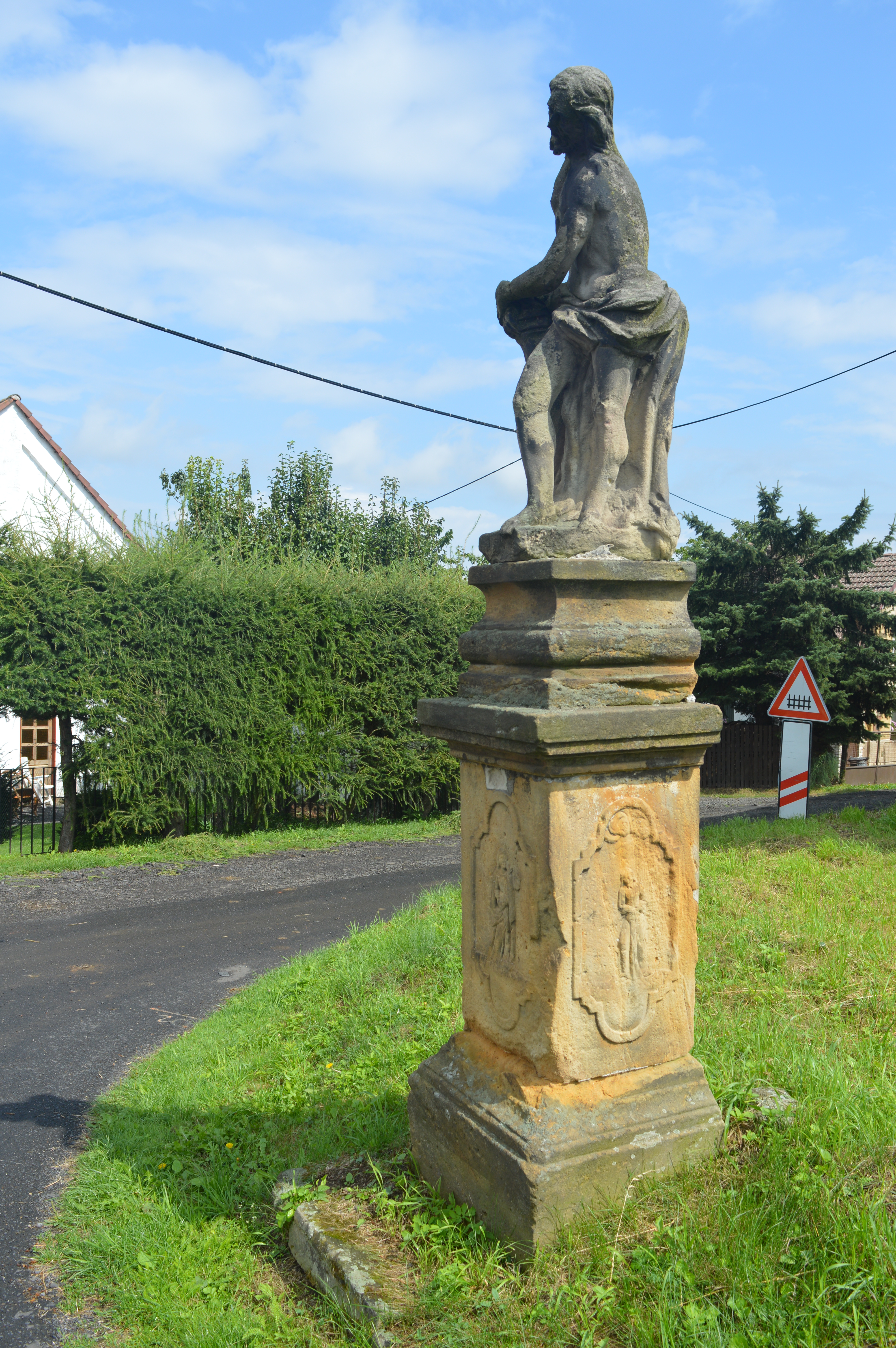 Ecce homo statue in Žim